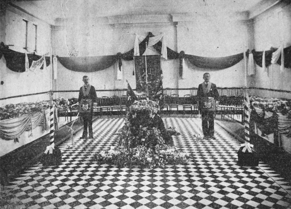 Sir Augustus Charles Gregory lying in state, Brisbane, 1905. Sir Augustus Charles Gregory was an English-born Australian explorer who undertook four major expeditions between 1846 and 1858. He was later appointed surveyor-general of Queensland in 1859 and held the position until 1879 when he retired.